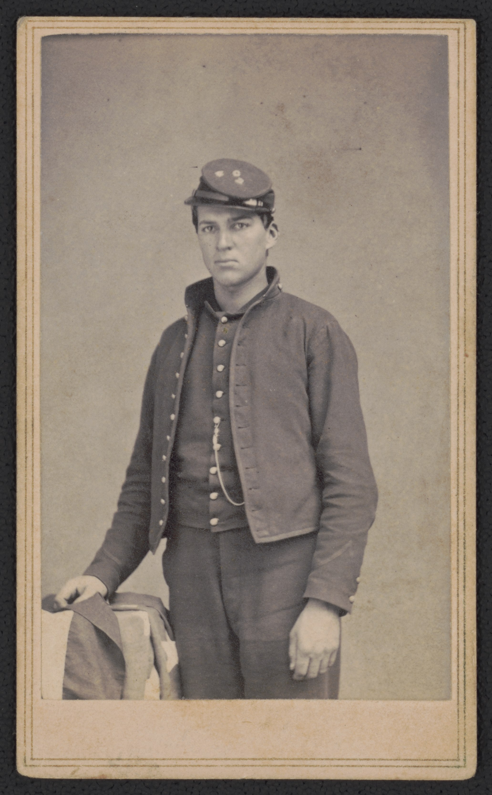 Title: Private Thomas Dennis of Co. G, 2nd New York Cavalry Regiment in uniform with American flag Abstract/medium: Liljenquist Family collection (Library of Congress) Physical description: 1 photograph